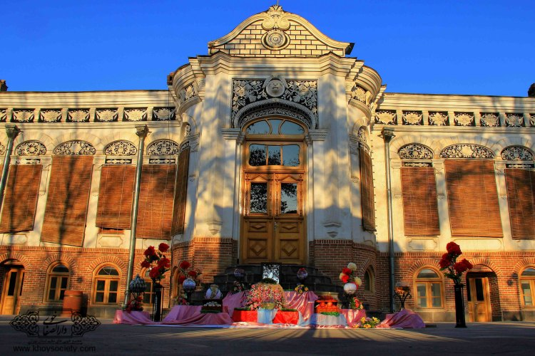 khoy municipality old bilding